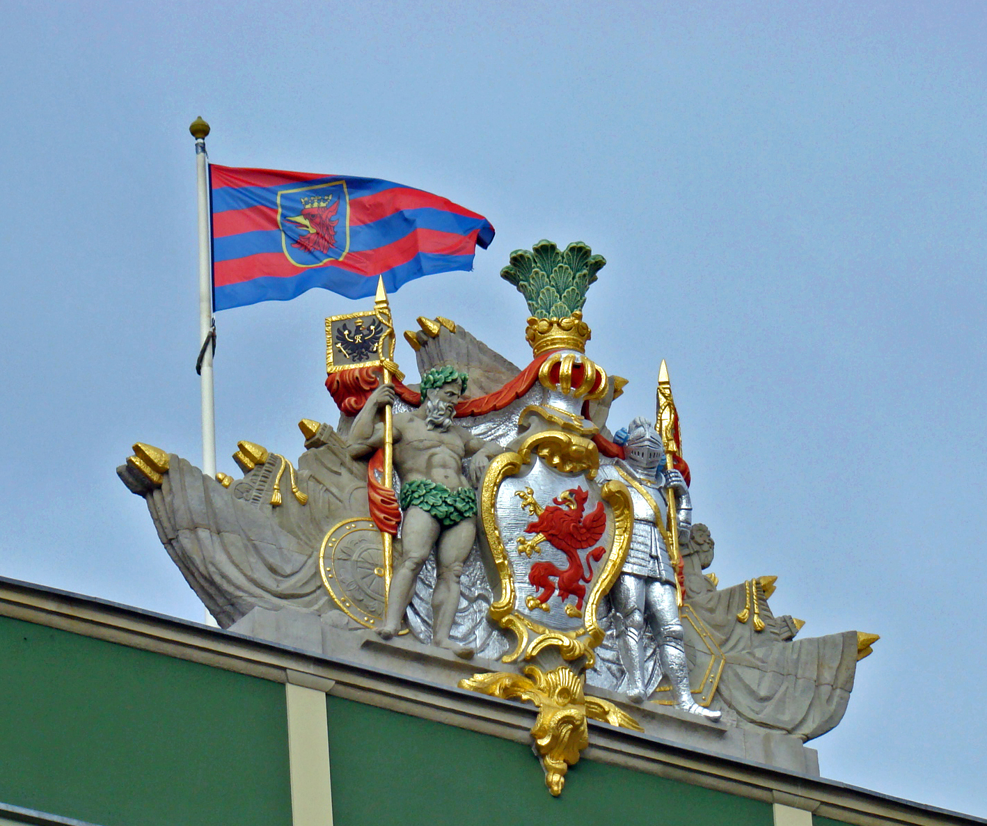 City Hall (Coat of arms the former Province of Pomerania and the current flag of Szczecin) in Szczecin, Poland